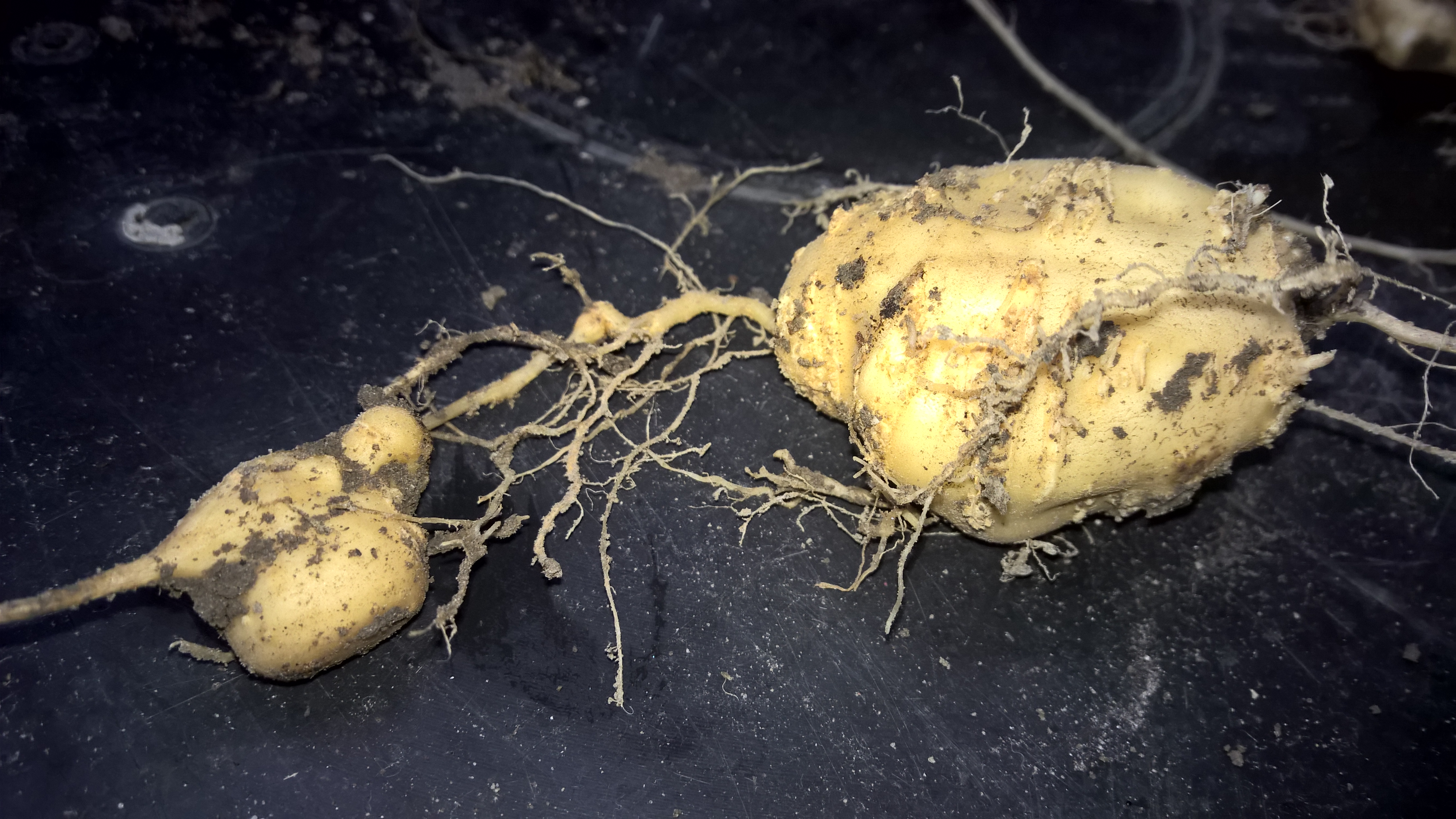 Manchu tubergourd